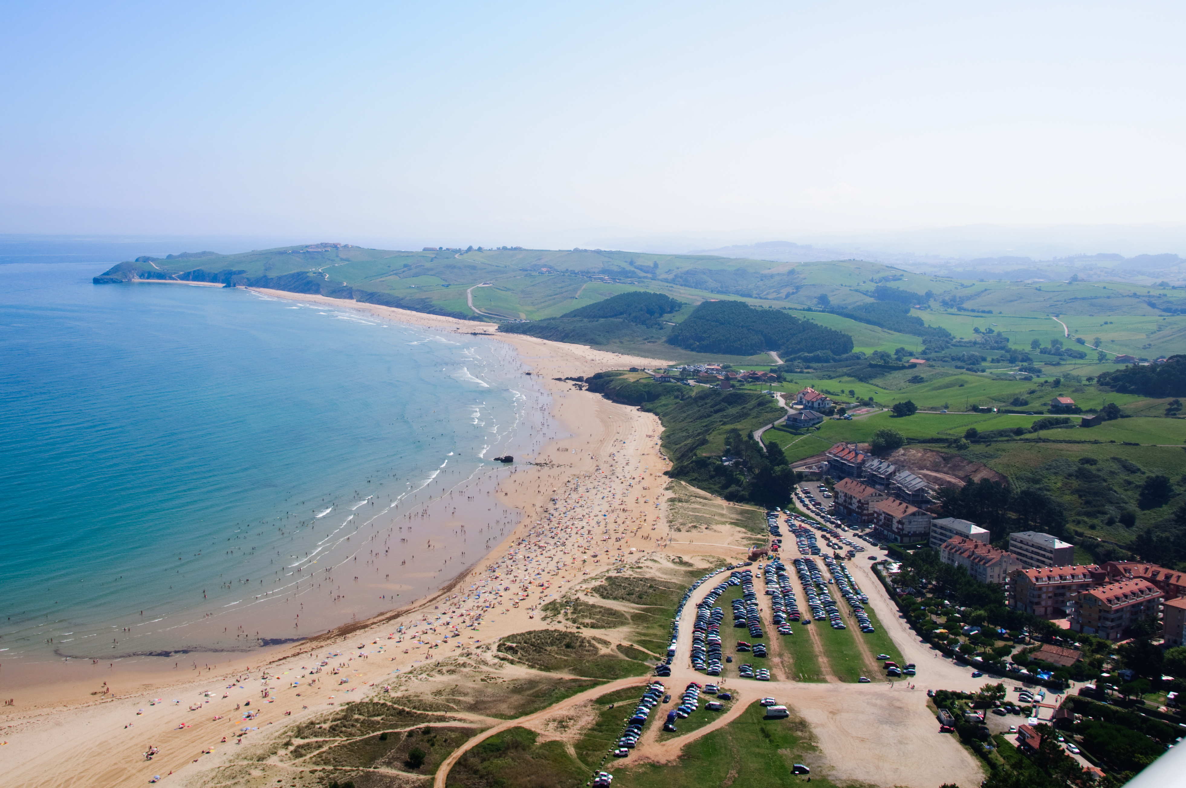 Aerial view of the Sable beach in San Vicente de la Barquera (Cantabria, Spain).